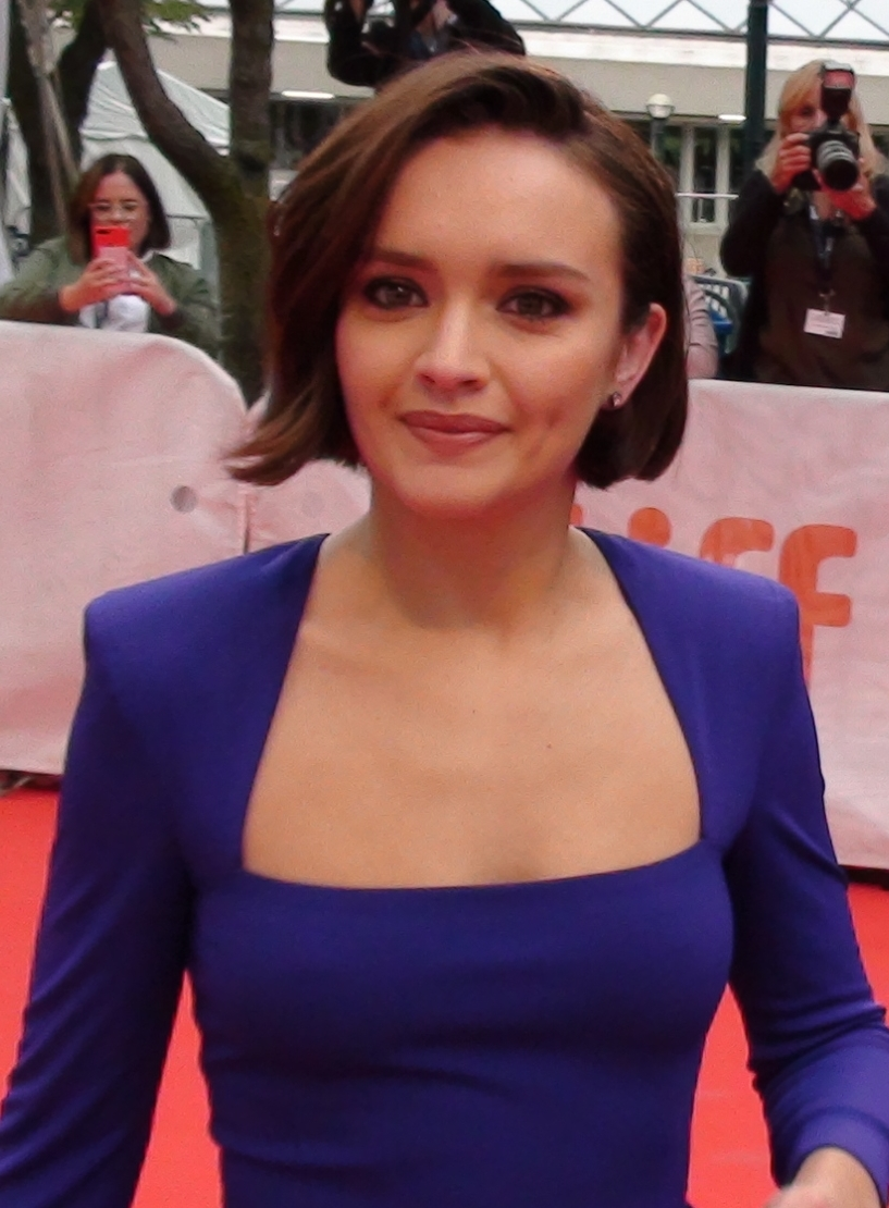 Close-up of Olivia Cooke on the red carpet at the Toronto International Film Festival for the movie screening Life Itself. Watch video